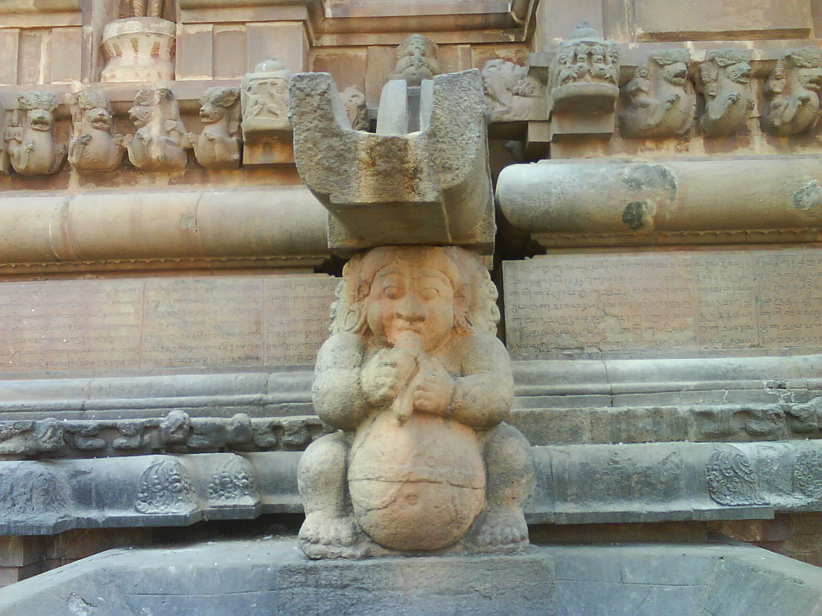 கலைநயமான சிற்பங்கள் உருவாக்குவதில் தமிழனை மிஞ்ச ஆள் இல்லை என்று தைரியமாக சொல்லலாம் தஞ்சை பெரியகோவில் சிற்பங்களை பார்த்தால்.. ஆயிரம் ஆண்டுகள் பழமையான சிற்பம் ...அழகு